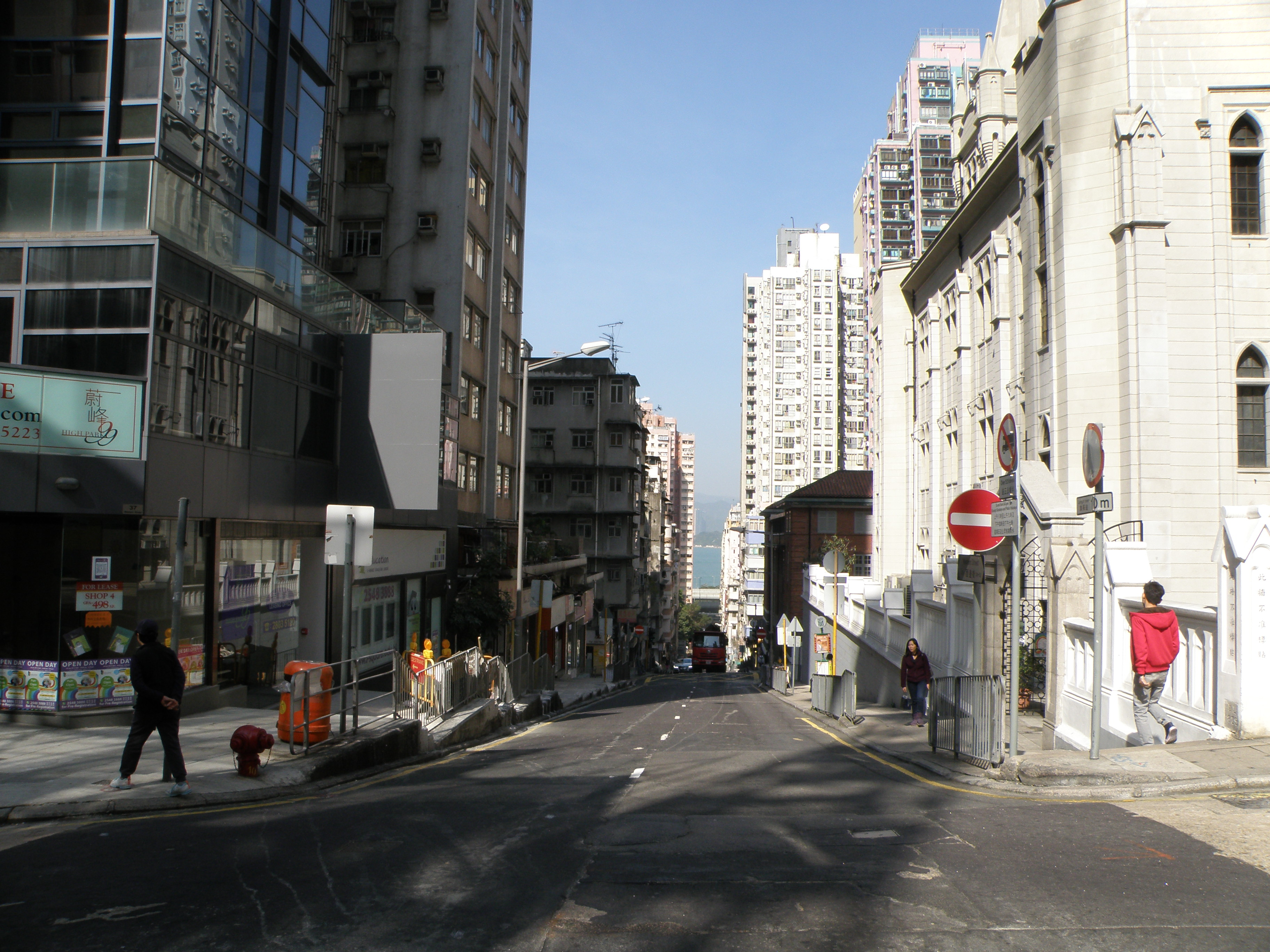 Western Street in Sai Ying Pun, Hong Kong.